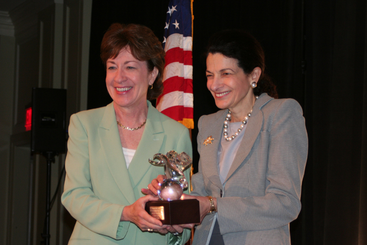 Olympia Snowe presenting the Partnership for Public Service Award to Susan Collins